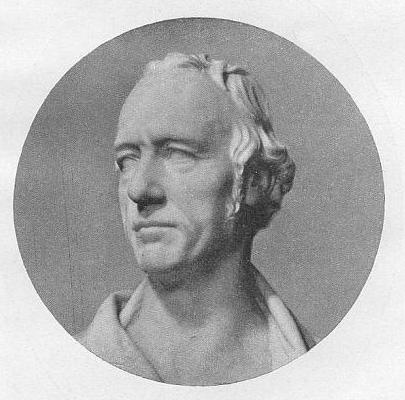 William Martin Leake